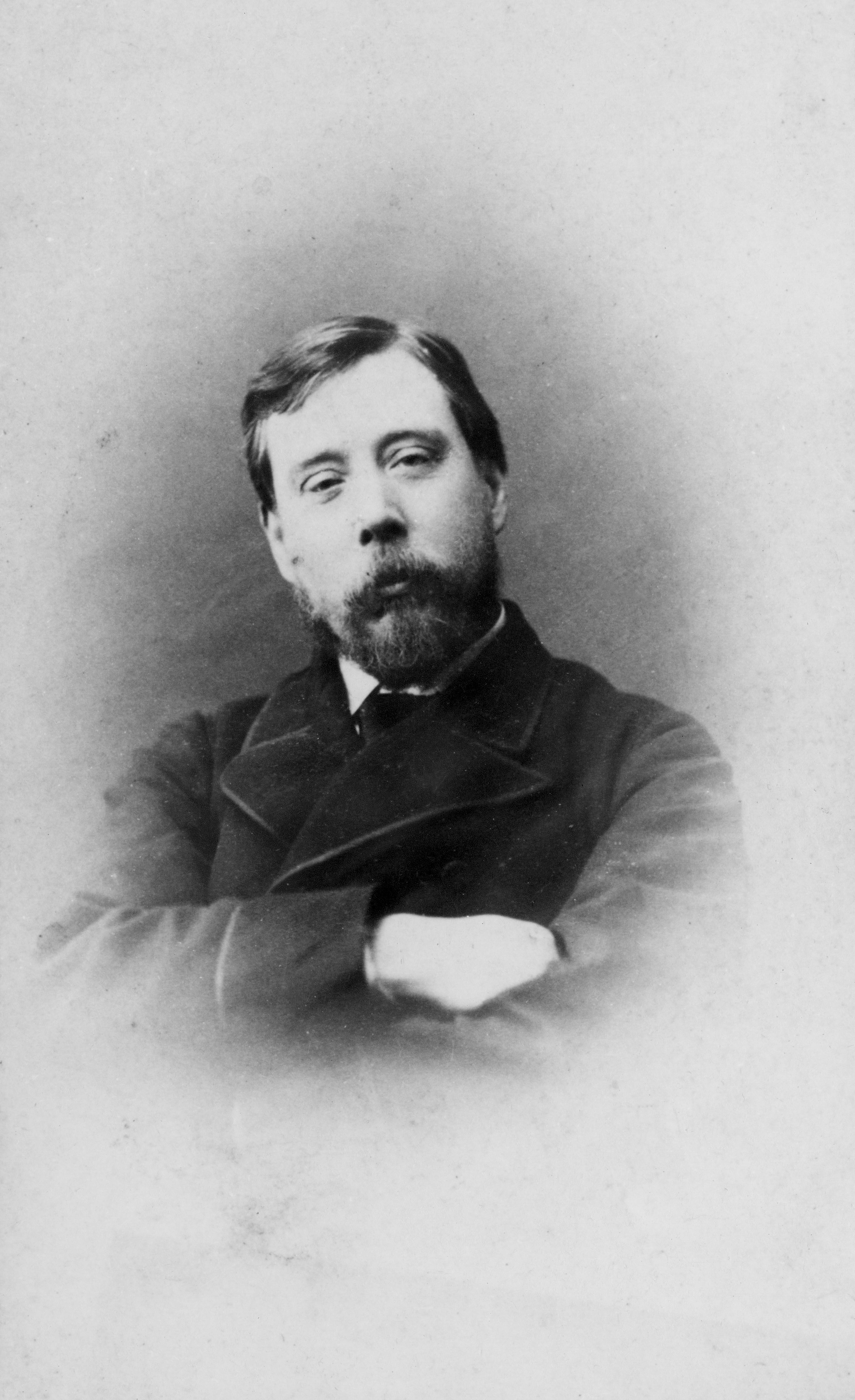 7JCC/O/02/081 Photograph, modern reproduction, printed, paper, monochrome, studio portrait of Richard Pankhurst; manuscript inscription on reverse 'Dr RM Pankhurst'